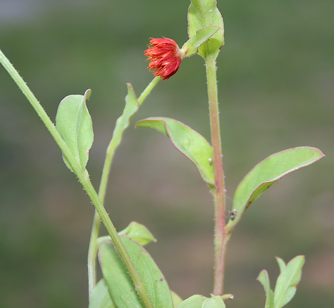 Allmania nodiflora in Keesara, Rangareddy district, Andhra Pradesh, India.